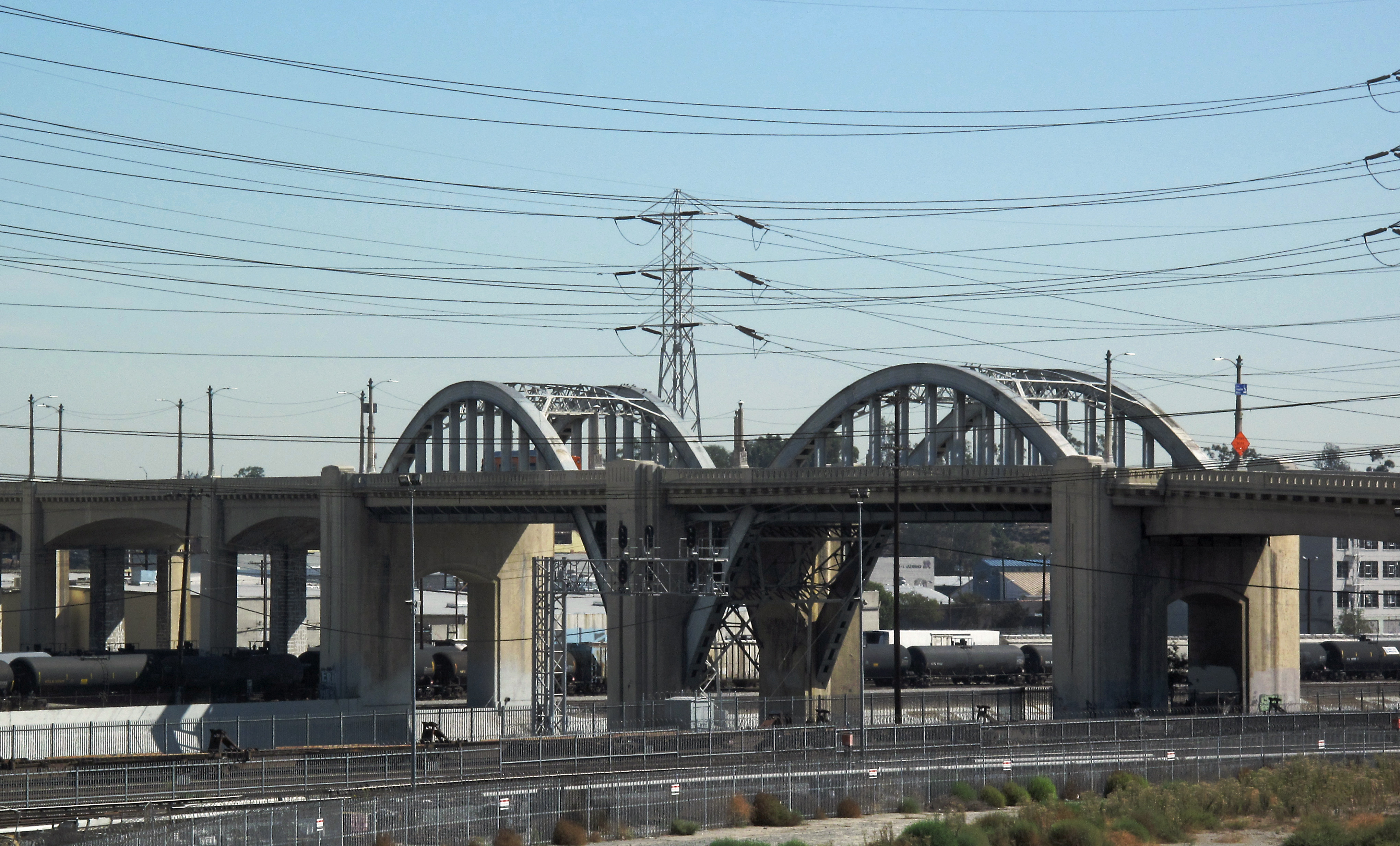 The historic Sixth Street Bridge over the Los Angeles River, downtown Los Angeles.